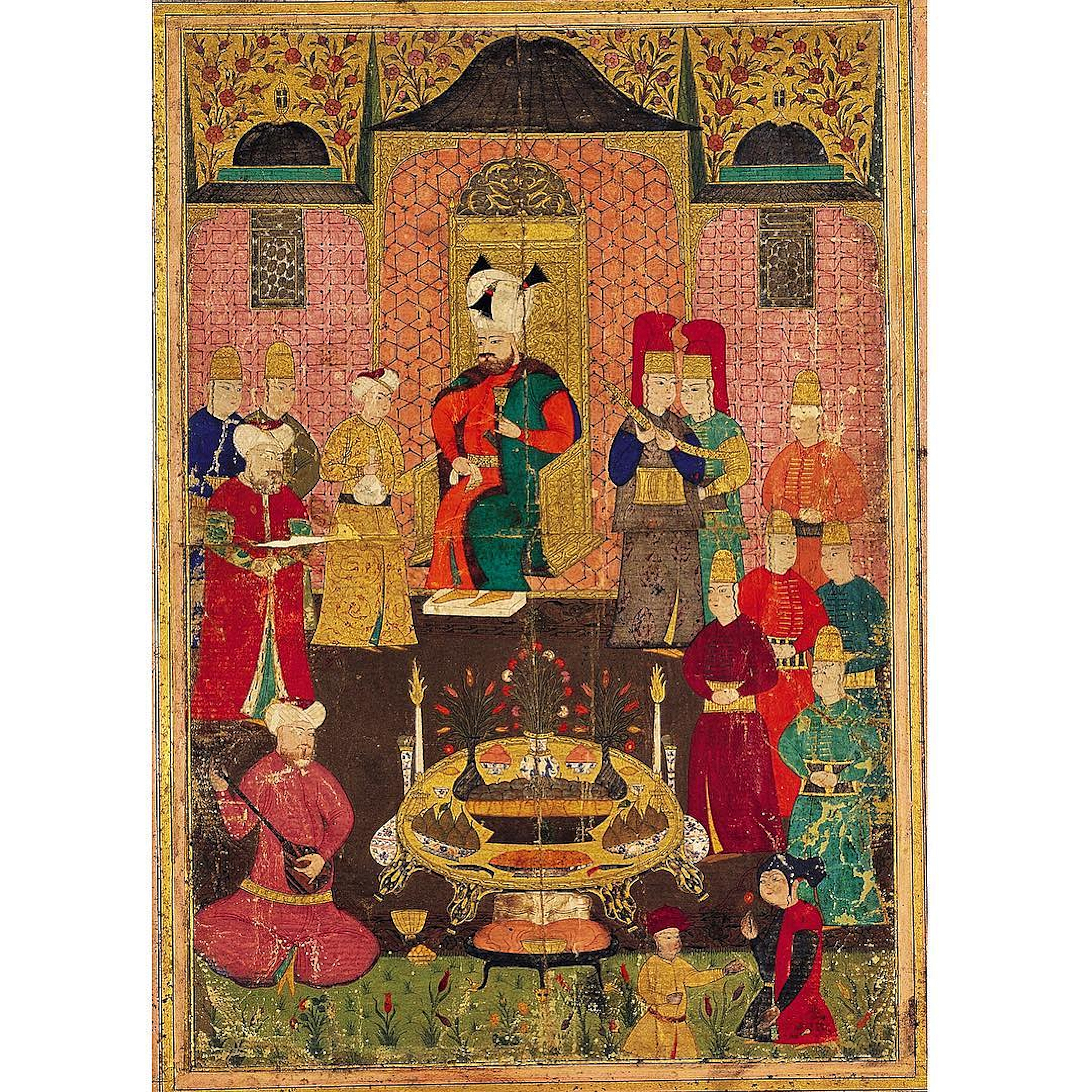 Sultan Murat IV dining with his court. A golden cup, a tablet with fresh flowers and frish fruits and porcelain plates are in front of him. Ottoman miniature painting. Topkapı Sarayı Müzesi, Istanbul.